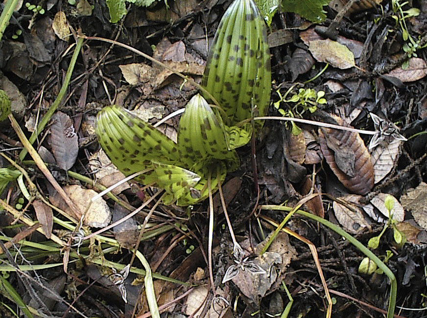 Scoliopus bigelovii